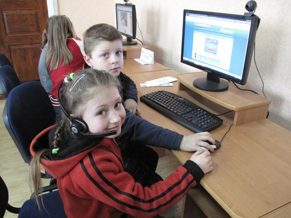 Tulchyn library Internet club